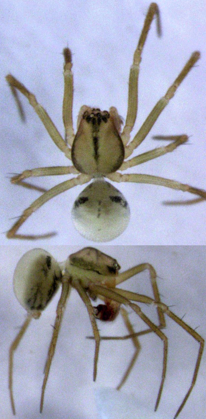 adult male Drapetisca australis, length about 1.7 mm.NEW ZEALAND, Antipodes Island, North Plains (crater), pitfall 2C4G, 3-13 Feb 2011, J.C. Russell